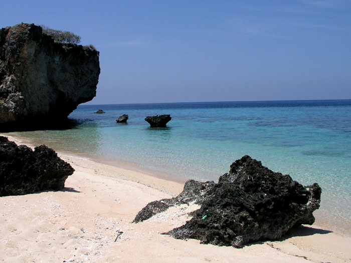 Com beach, East Timor